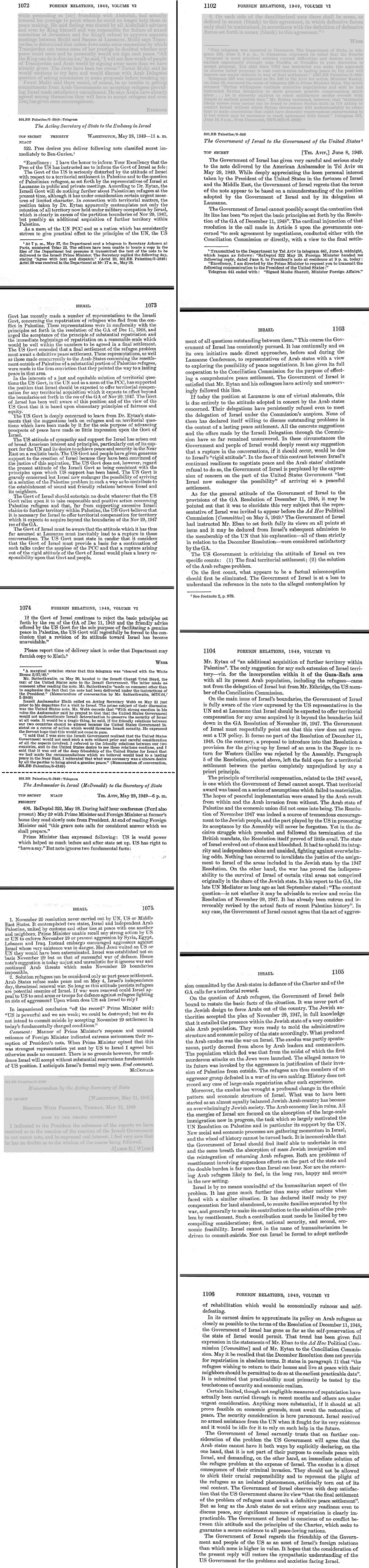 Memo of 28 Mei 1949 from US President Harold Truman to Israeli Prime Minister David Ben-Gurion, and the Israeli reply of 8 June 1949.